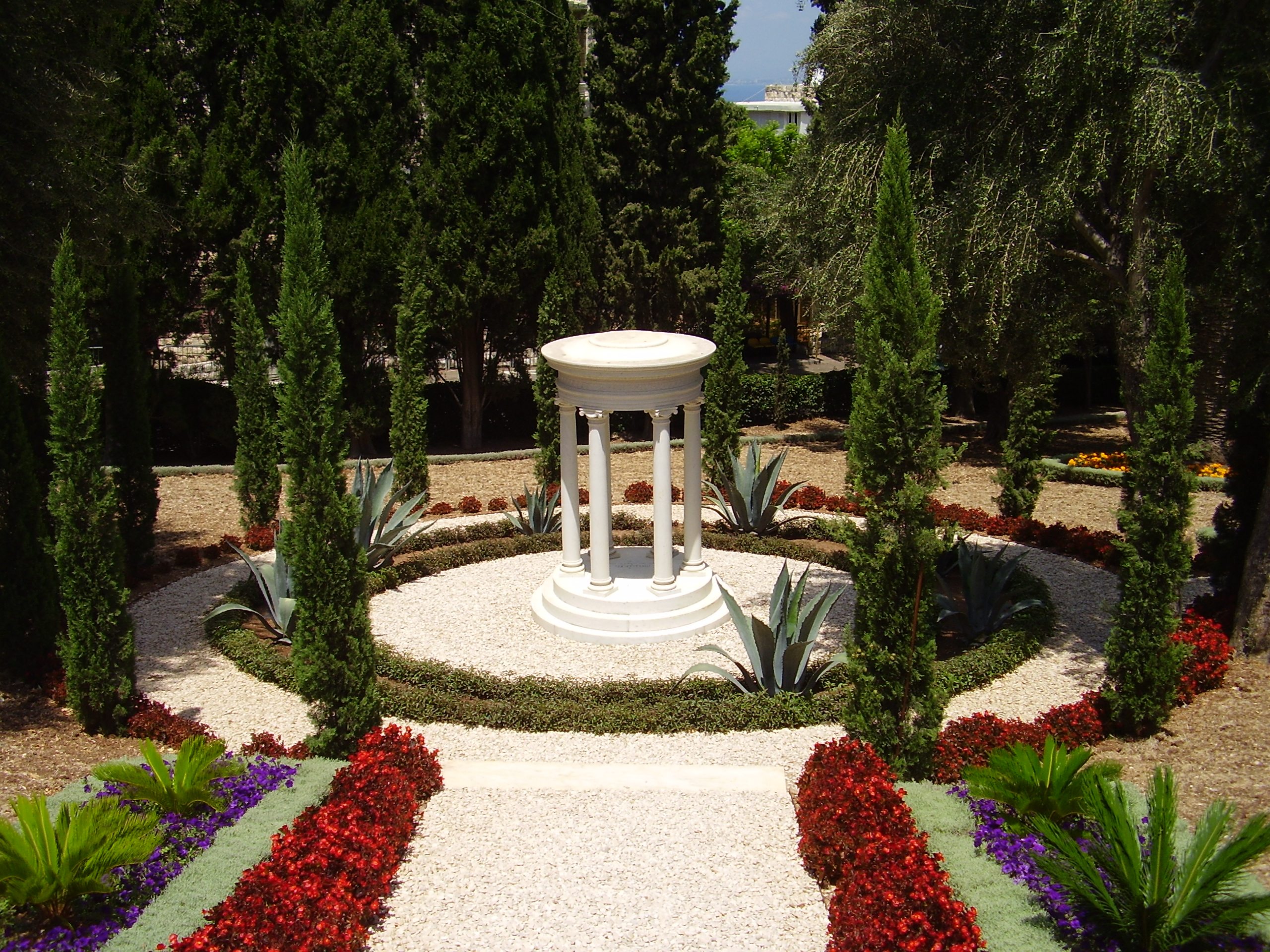 The Grave of Munírih Khánum, wife of 'Abdu'l-Bahá at the Monument Gardens of the Bahá'í World Centre in Haifa, Israel.